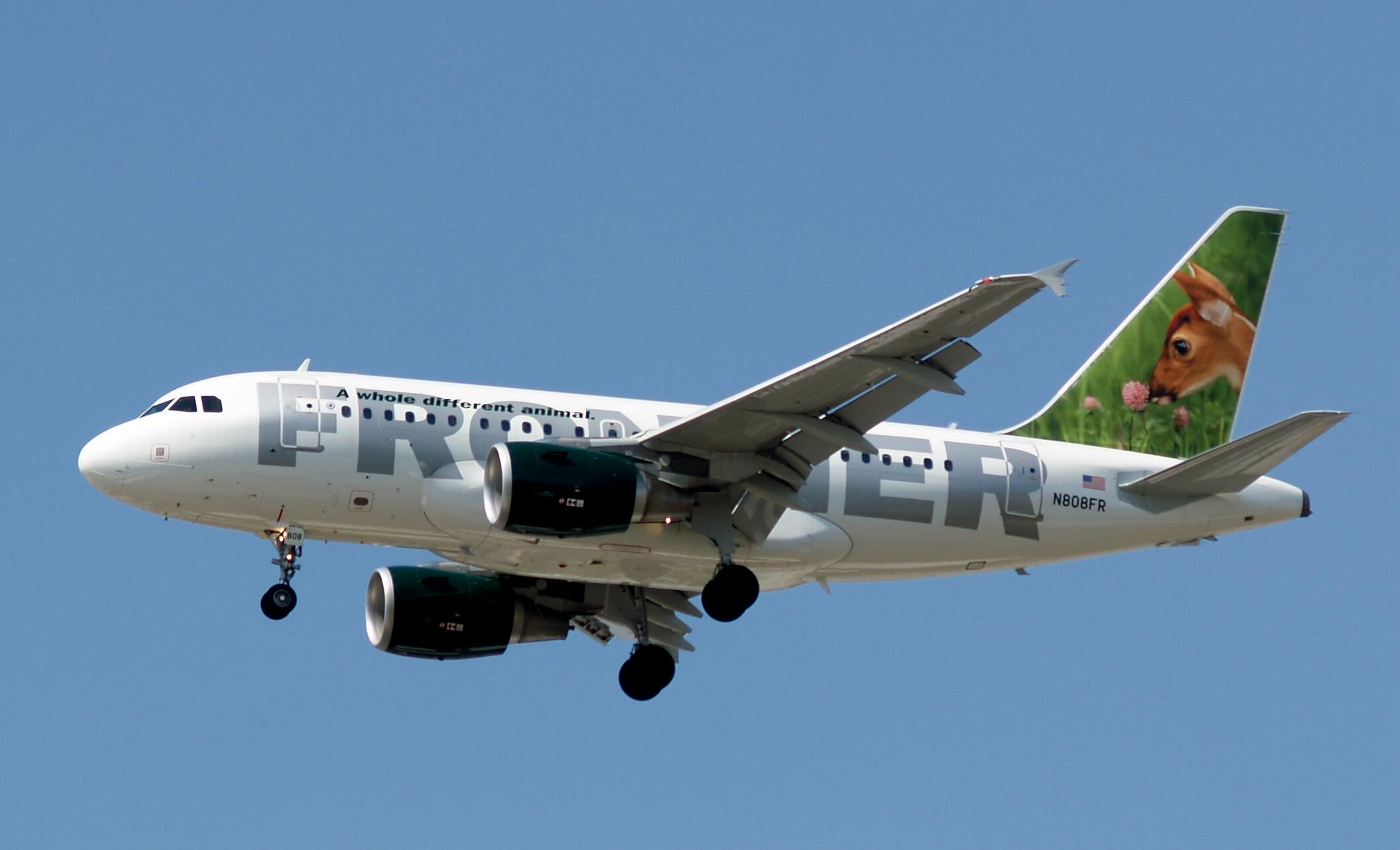 Frontier Airlines Fawn Airbus A318-111 N808FR.